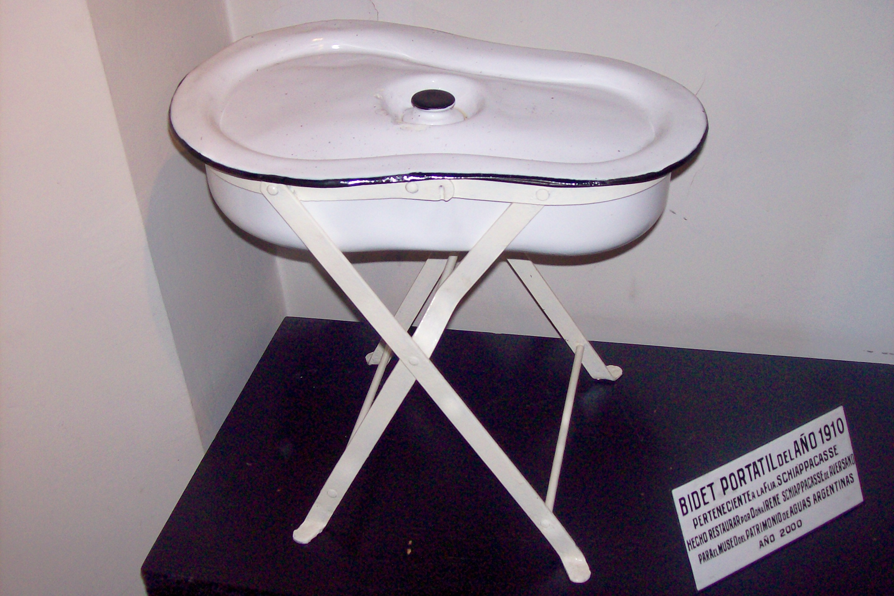 Portable Bidet 1910